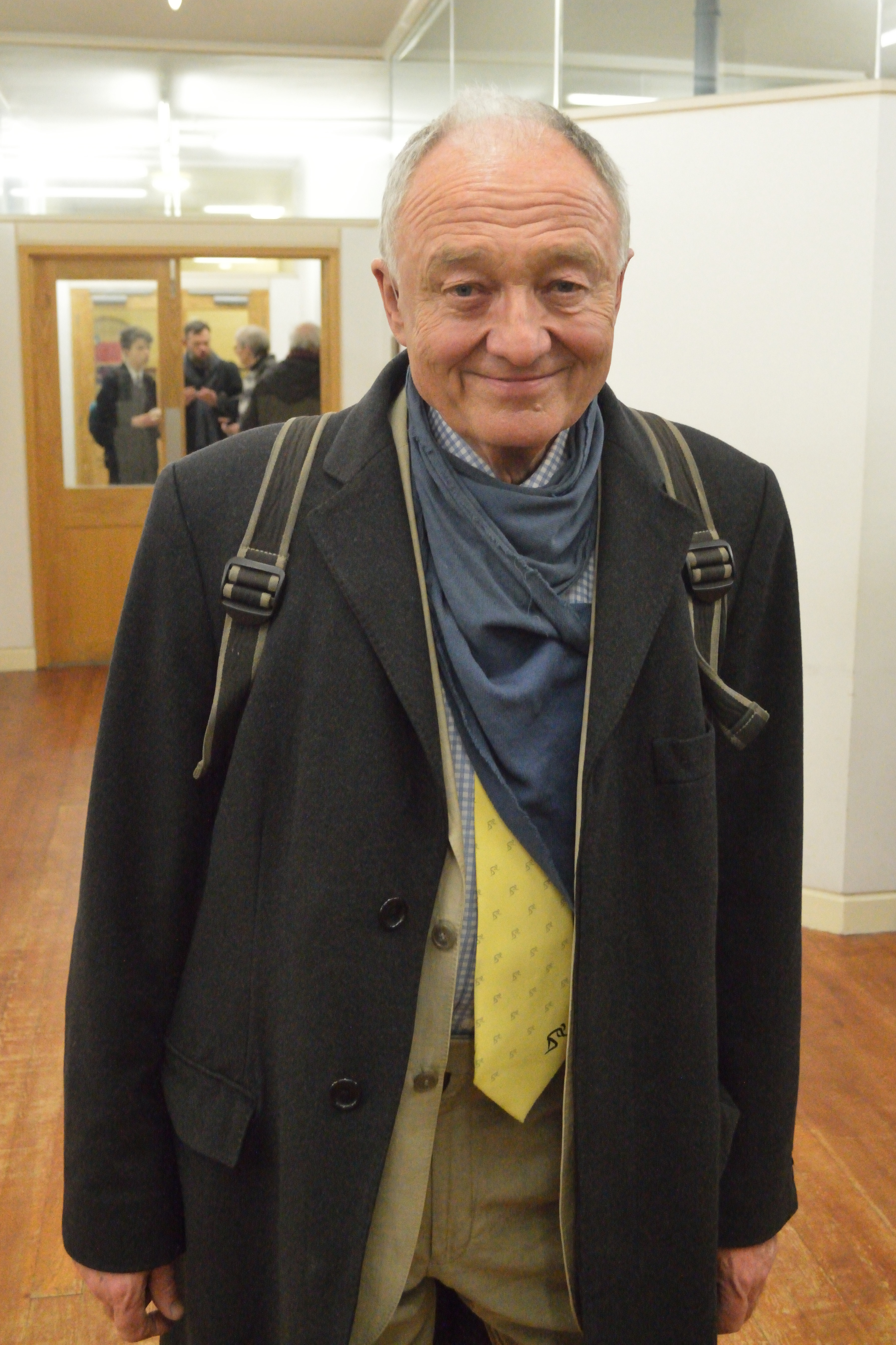 Ken Livingstone after speaking in the BBC Radio 4 Any Questions? programme at the Nexus Methodist Church, Bath, on 15 January 2016. This photograph is taken in the basement for coffee after the programme.